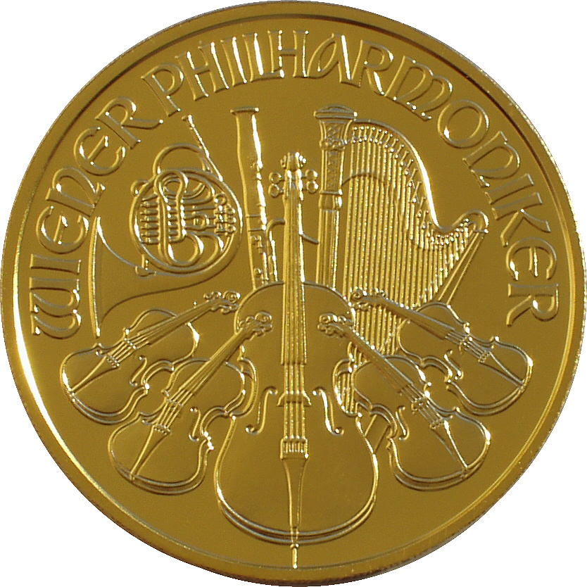 Austria 100 Euro‚ Philharmoniker, musical instruments, 2008, 1 ounce finegold 999.9, d=37 mm